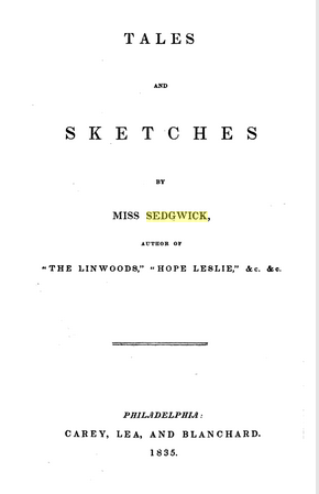 Tales and Sketches, By Catharine Maria Sedgwick